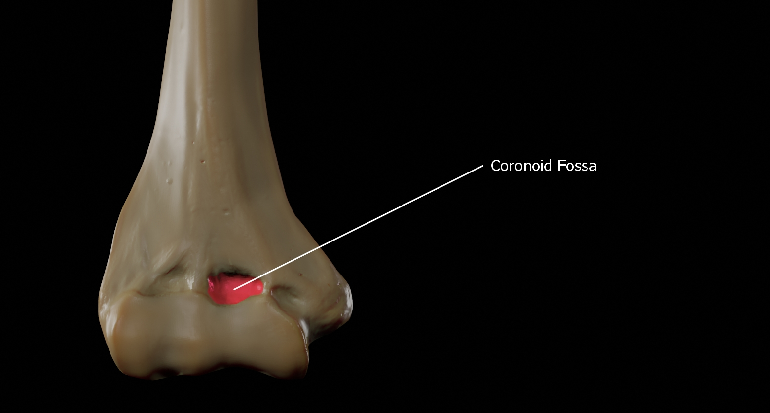 The coronoid fossa is the medial hollow part on the anterior surface of the distal humerus. The coronoid fossa is larger than the olecranon fossa and receives the coronoid process of the ulna during maximum flexion of the elbow.